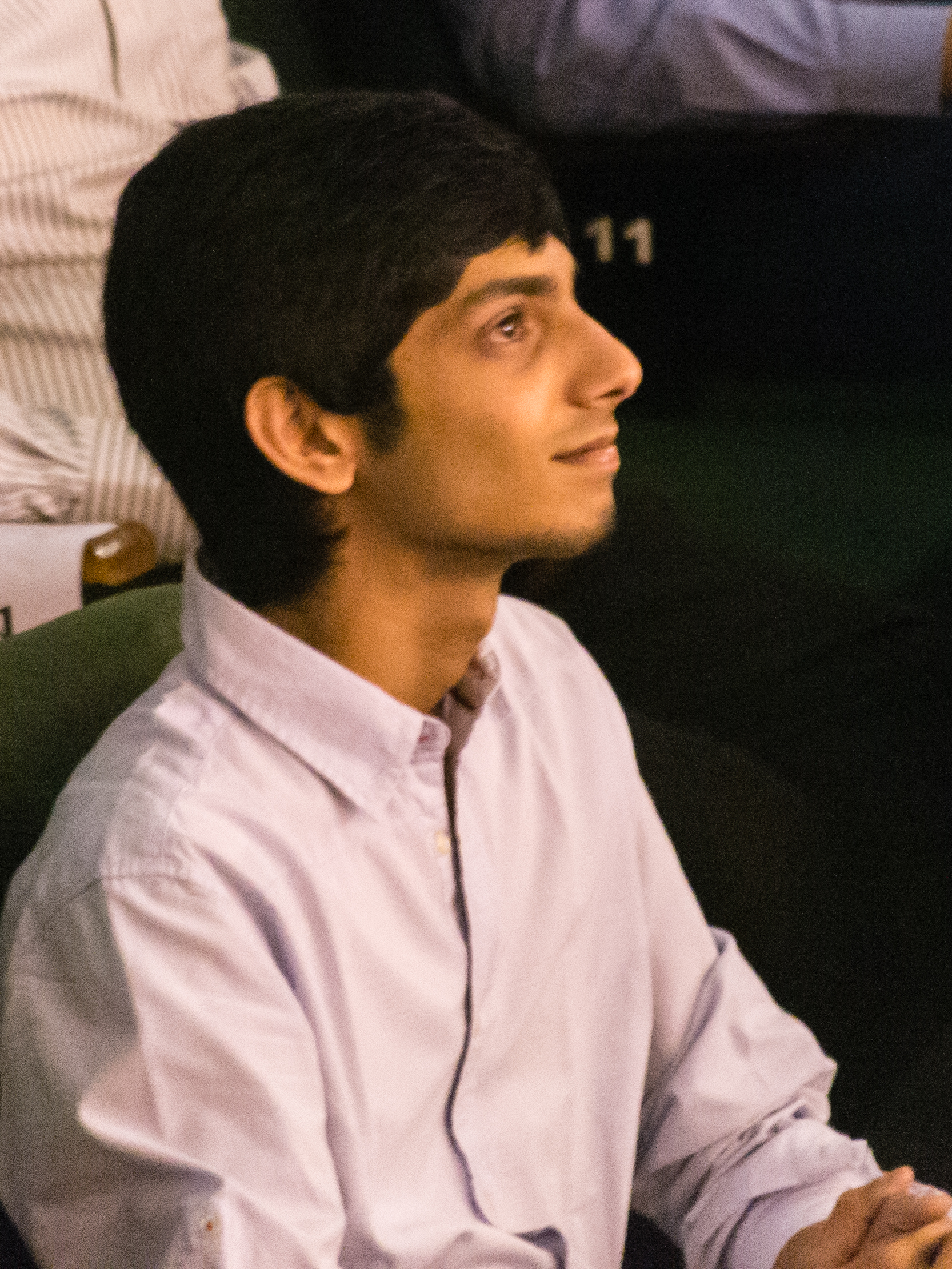 Anirudh Ravichander at the Egmore Museum Theater, Chennai